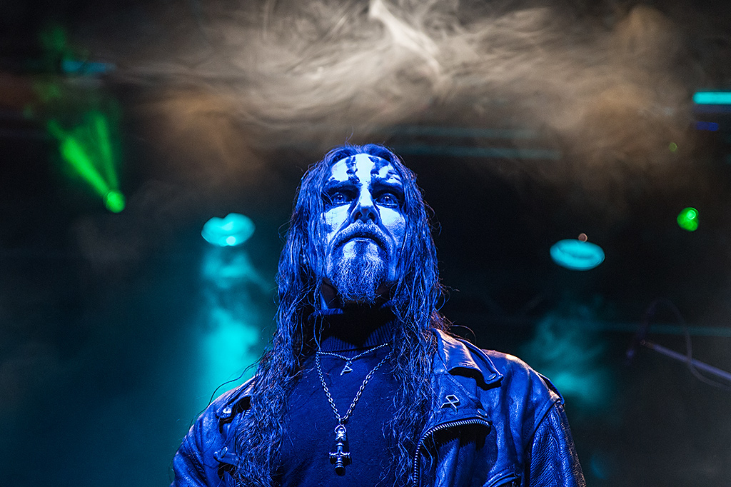 God Seed - 7.12.2012 - Music Hall, Geiselwind